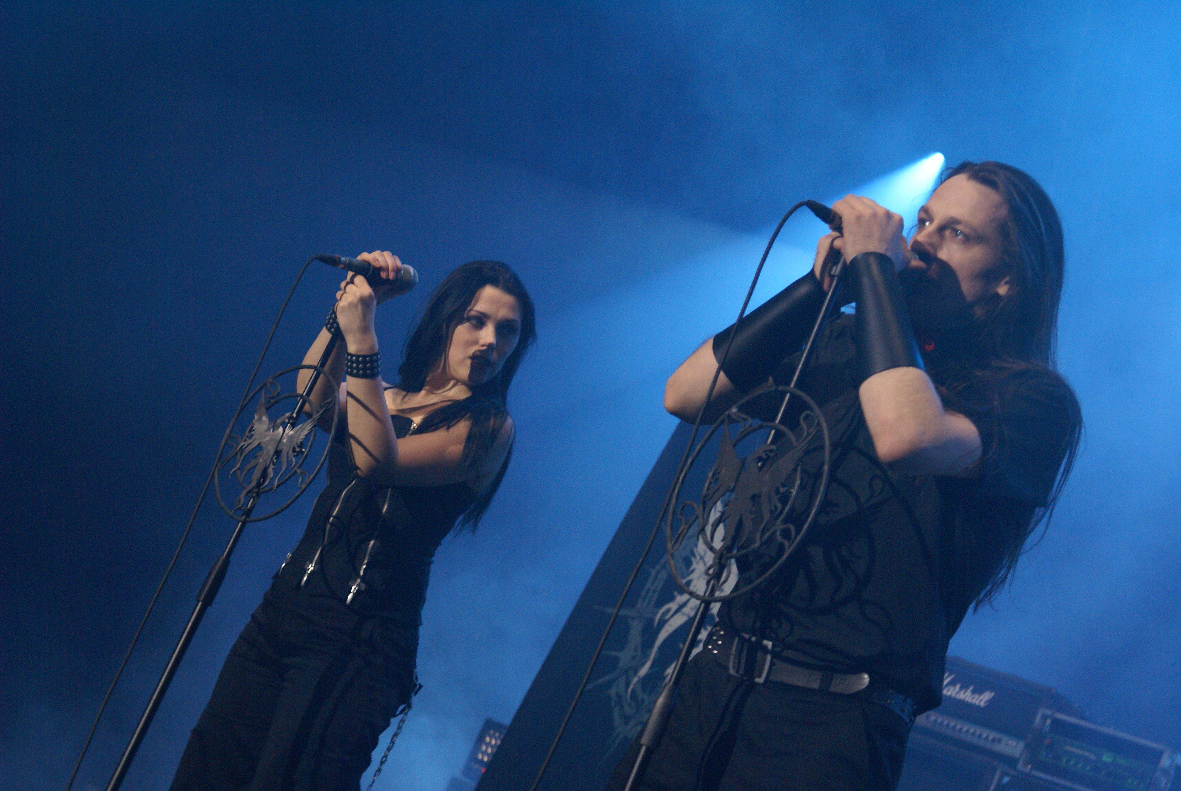 Nera and Flauros from Darzamat during Metalmania 2007 festival.